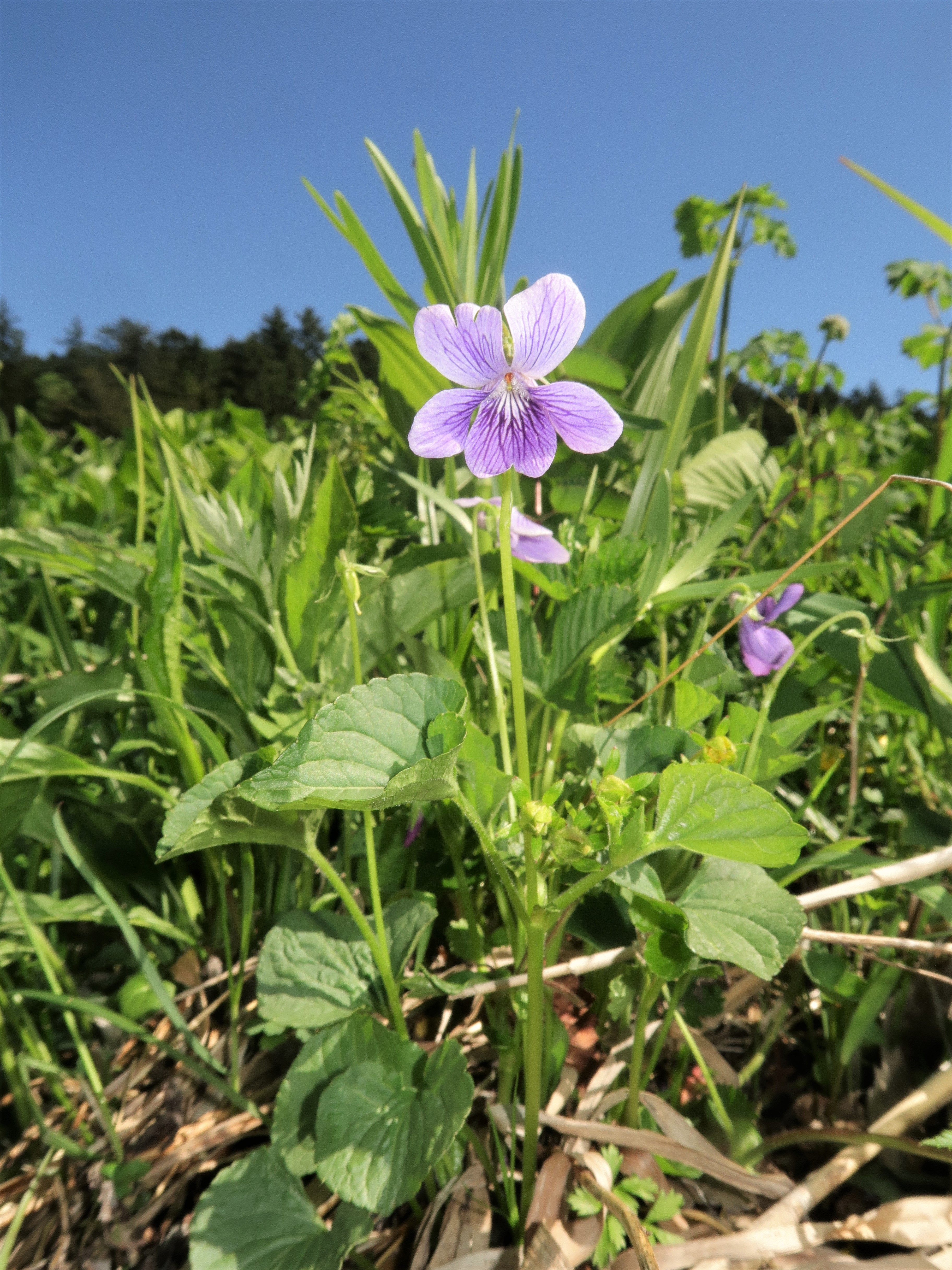 Viola langsdorfii subsp. sachalinensis, Oze, Fukushima pref., Japan